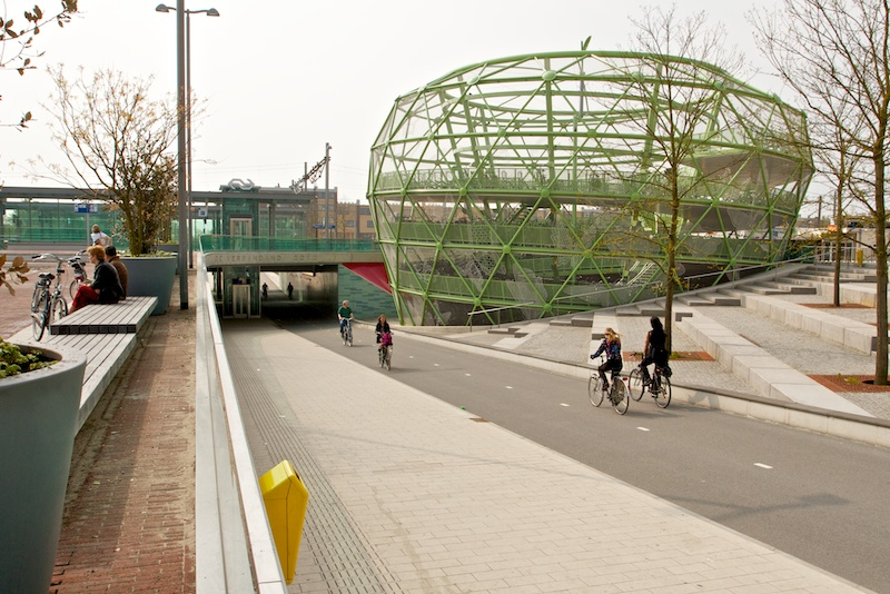 Pedestrian and bicycle tunnel underneath railway station Alphen aan den Rijn, The Netherlands. Apple-shaped bicycle parking facility.